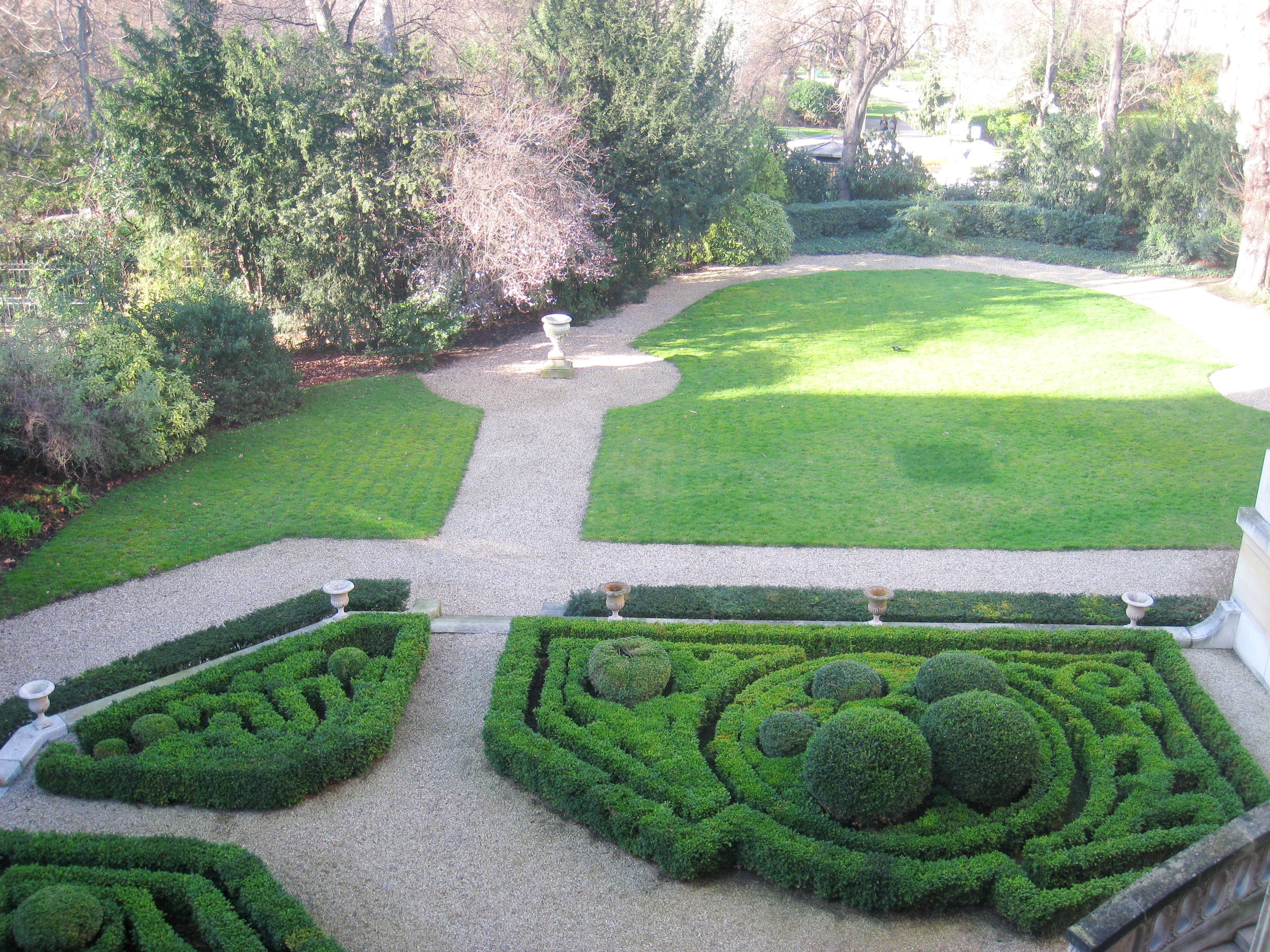 Musée Nissim de Camondo, Paris, France - garden. There were no restrictions on photography (other than prohibiting flash) in writing and when I asked explicitly. Thus the museum did not impose restrictions on the use of this image.